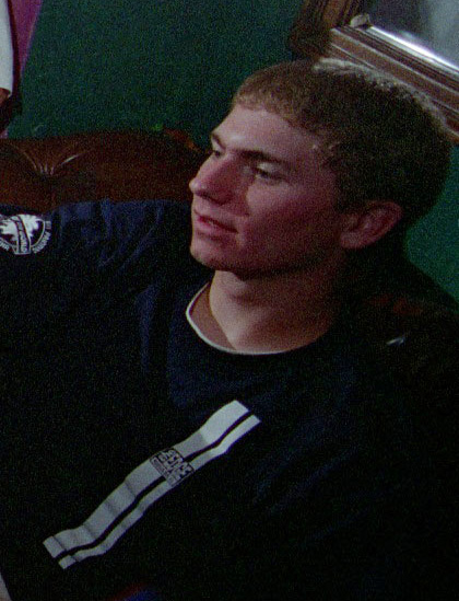 Scott Raynor in 1995